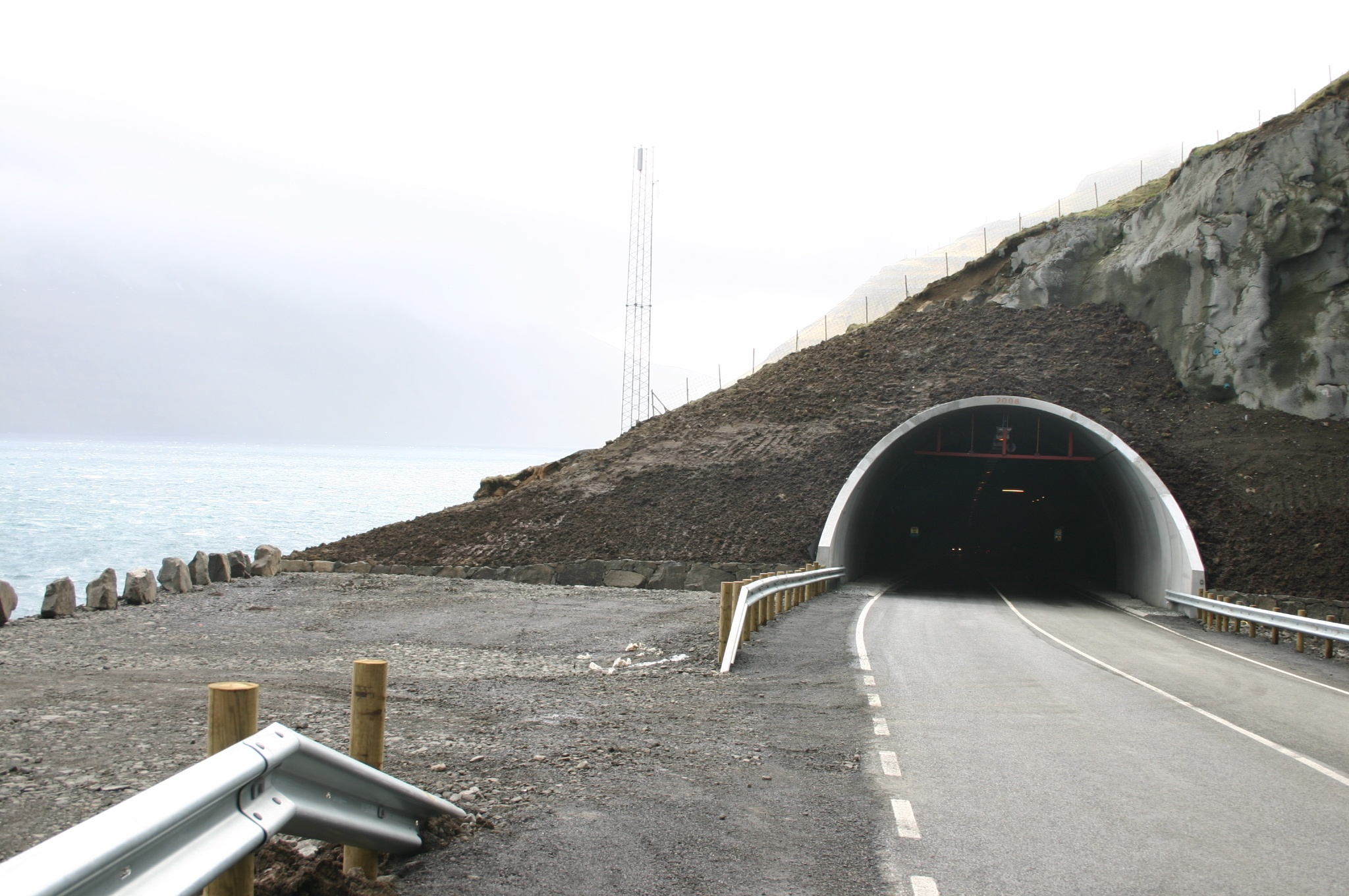 Norðoyatunnilin, Faroe Islands. Gateway at Leirvík